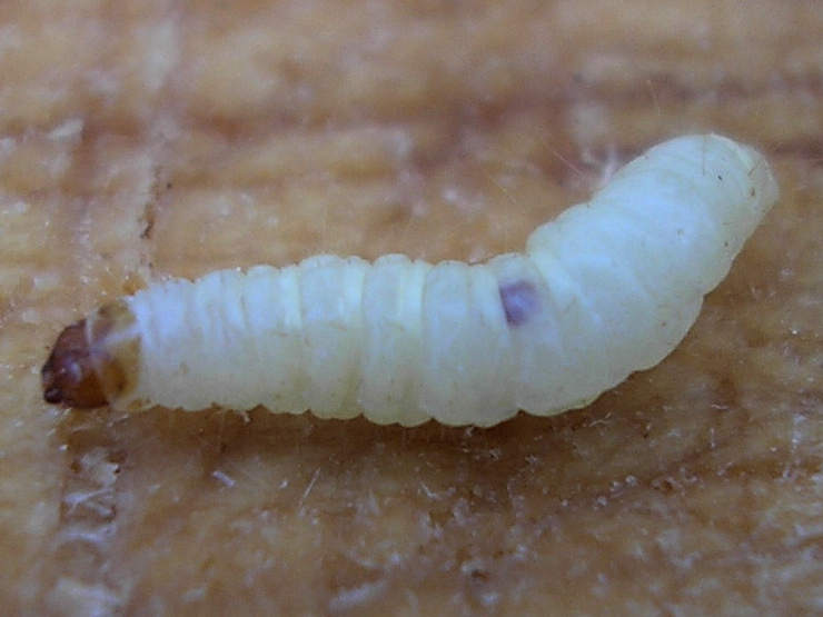 Indian Meal Moth (Plodia interpunctella) - larva. Location: Ballans, 17160 (Charente-Maritime) FranceKeywords: pest, food, chocolate